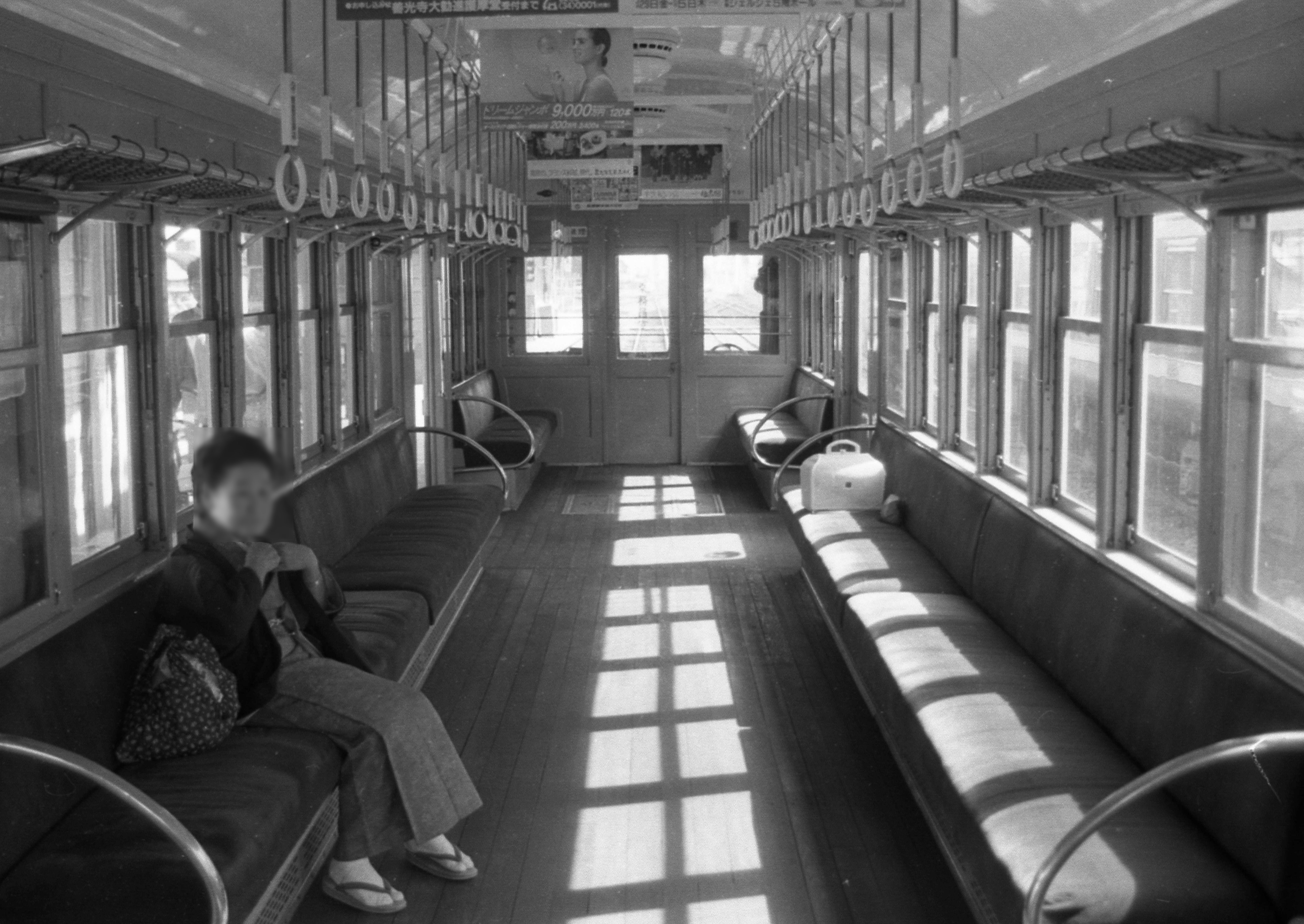 Inside Nagaden 1501